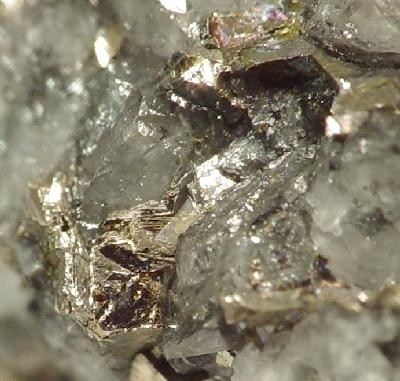 Antimony Locality: St Andreasberg, St Andreasberg District, Harz Mts, Lower Saxony, Germany (Locality at ) Size: 2.1 x 1.7 x 1.2 cm. This specimen is composed of many sharp, lustrous Antimony crystals 1 or 2 mm in size, intergrown but clearly visible on matrix. Both the luster and sharpness are outstanding. Ex. Marilyn Dodge Collection.